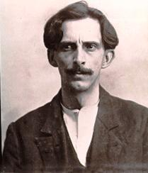 File cropped from File:Edgard Leuenroth prisão.gif